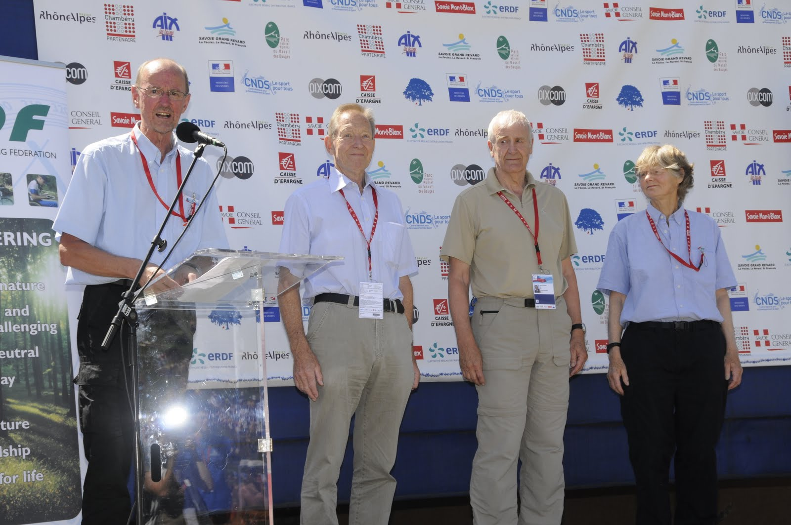 IOF President Åke Jacobson (left), and past IOF Presidents (from left to right) Bengt Saltin (IOF President 1982-1988), Heinz Tschudin (IOF President 1988-1994) and Sue Harvey (IOF President 1994-2004)